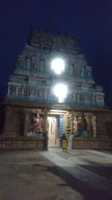 Tirukkadayurmayanambrahmapurisvarartemple திருக்கடையூர்மயானம்பிரம்மபுரீஸ்வரர்கோயில்